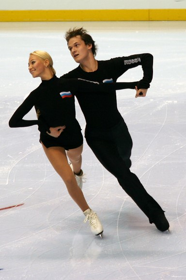 Natalia Mikhailova & Arkadi Sergeev at the 2006 Skate America.